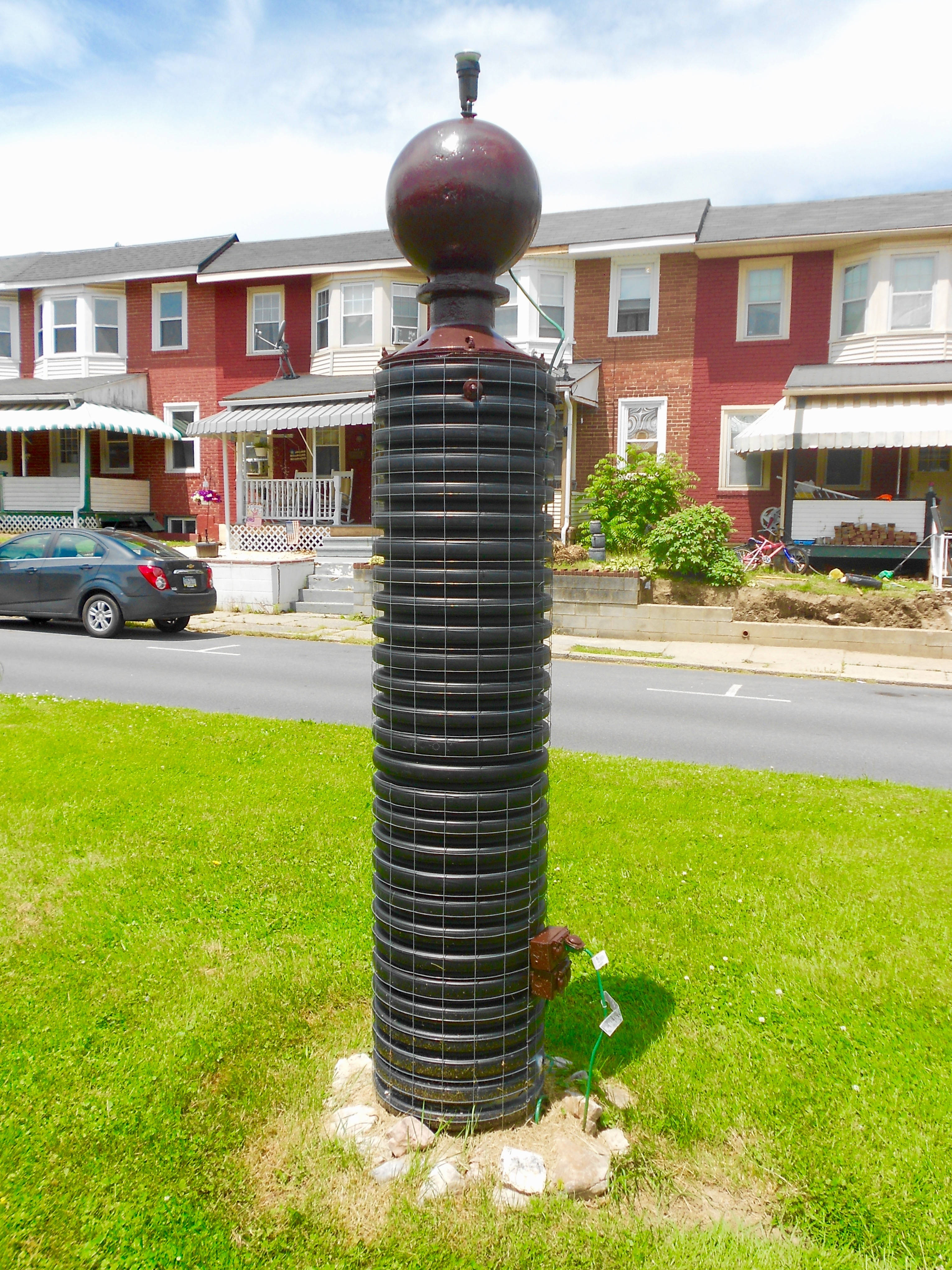 A functional, or soon to be functional, something-or-the-other in Juniata Terrace, Pennsylvania. This is a very strange object with electrical outlets built in, black rubber or plastic coating on the side covered with chicken wire, and a ball on the top. It's even stranger in that the small town has buildings that essentially all have the same design. I asked a resident and he said that he thought there would be stonework built around it, and then it would be ... something